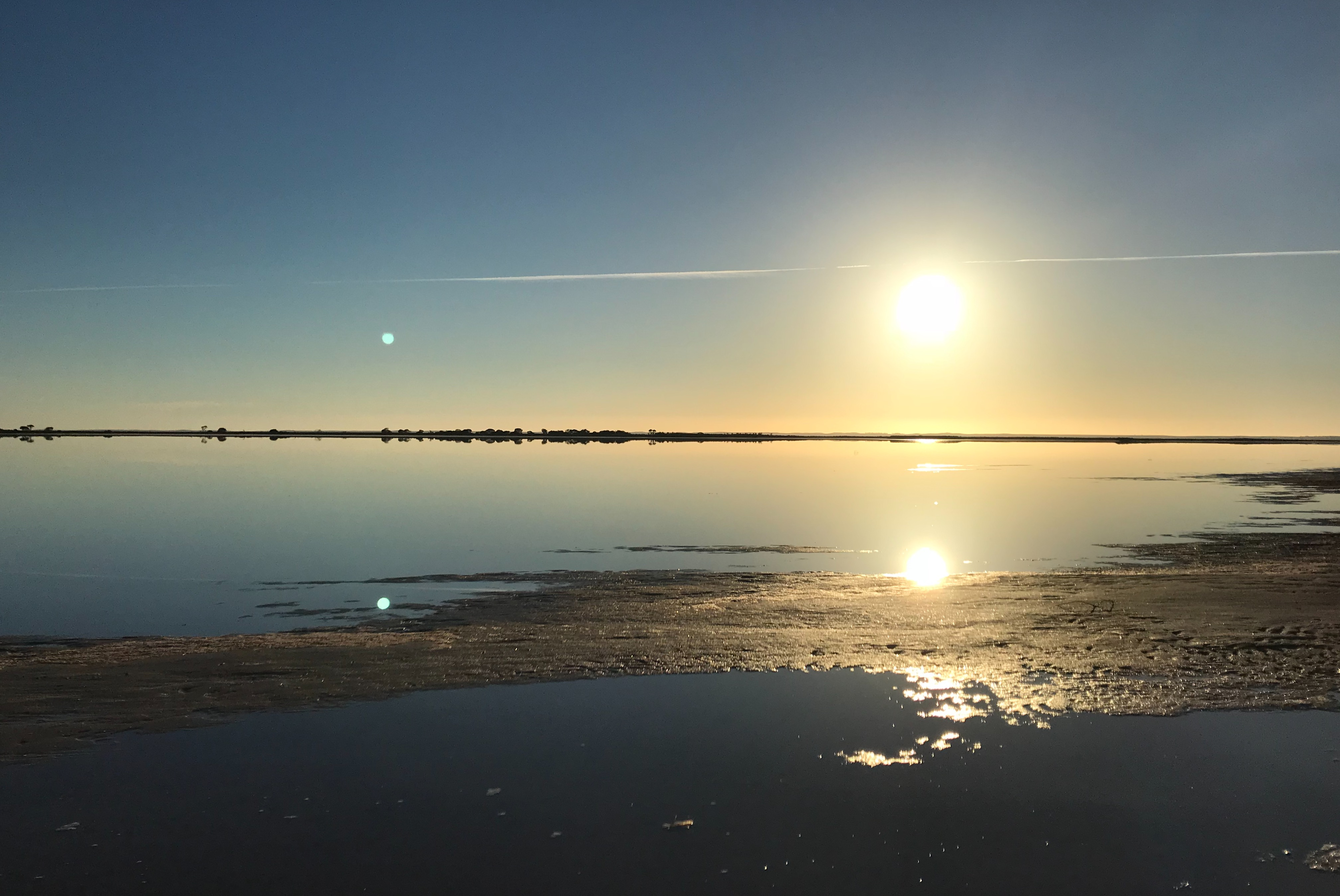 Lake Tyrrell taken on an iPhone7 at 8.15am on June 22, the day after the Australian winter solstice in 2018. Lake Tyrrell is a salt lake in north-western Victoria and has been a well-photographed site because of its mirror-like surface.